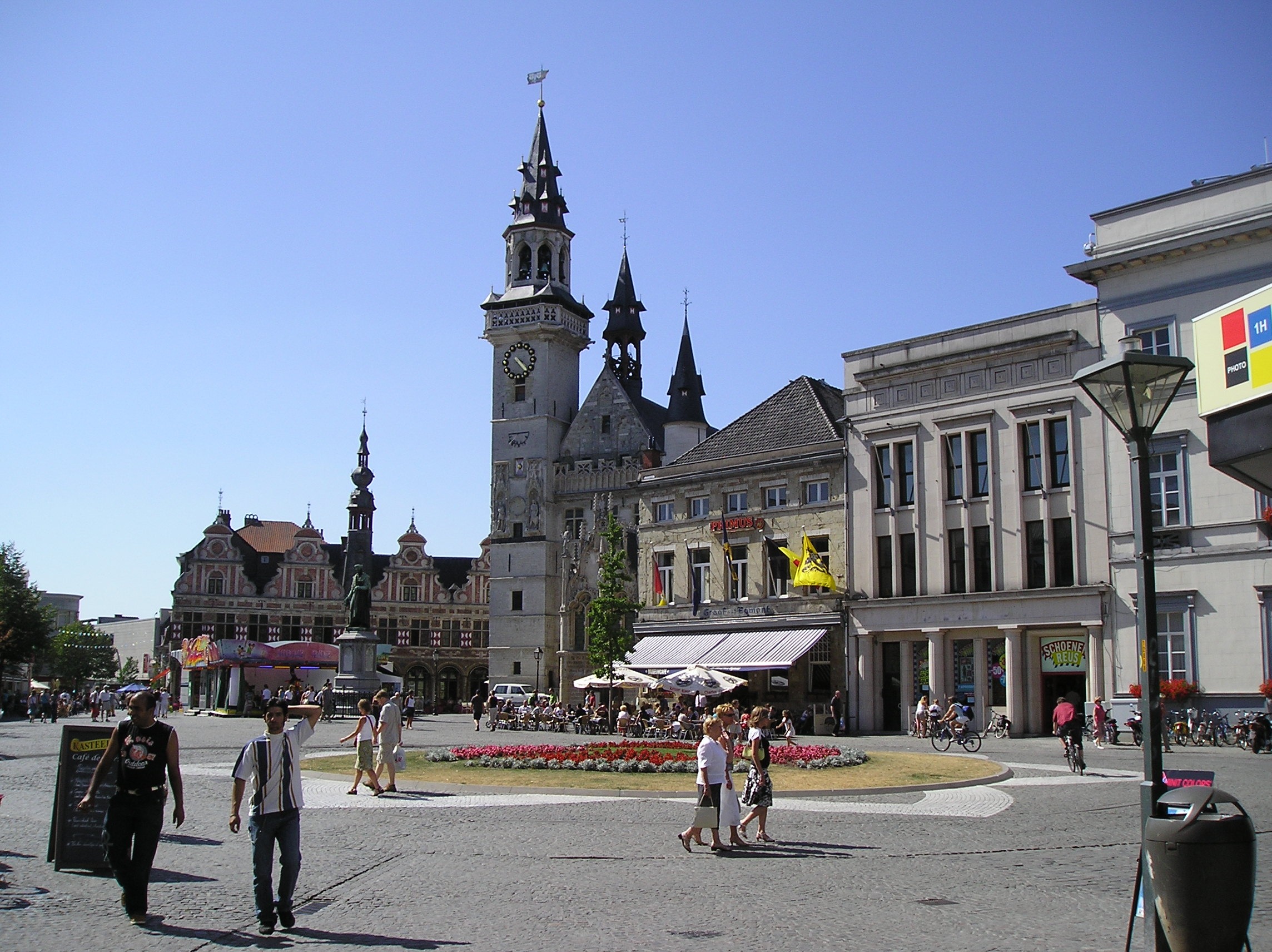 Grote markt (big market) square in Aalst.